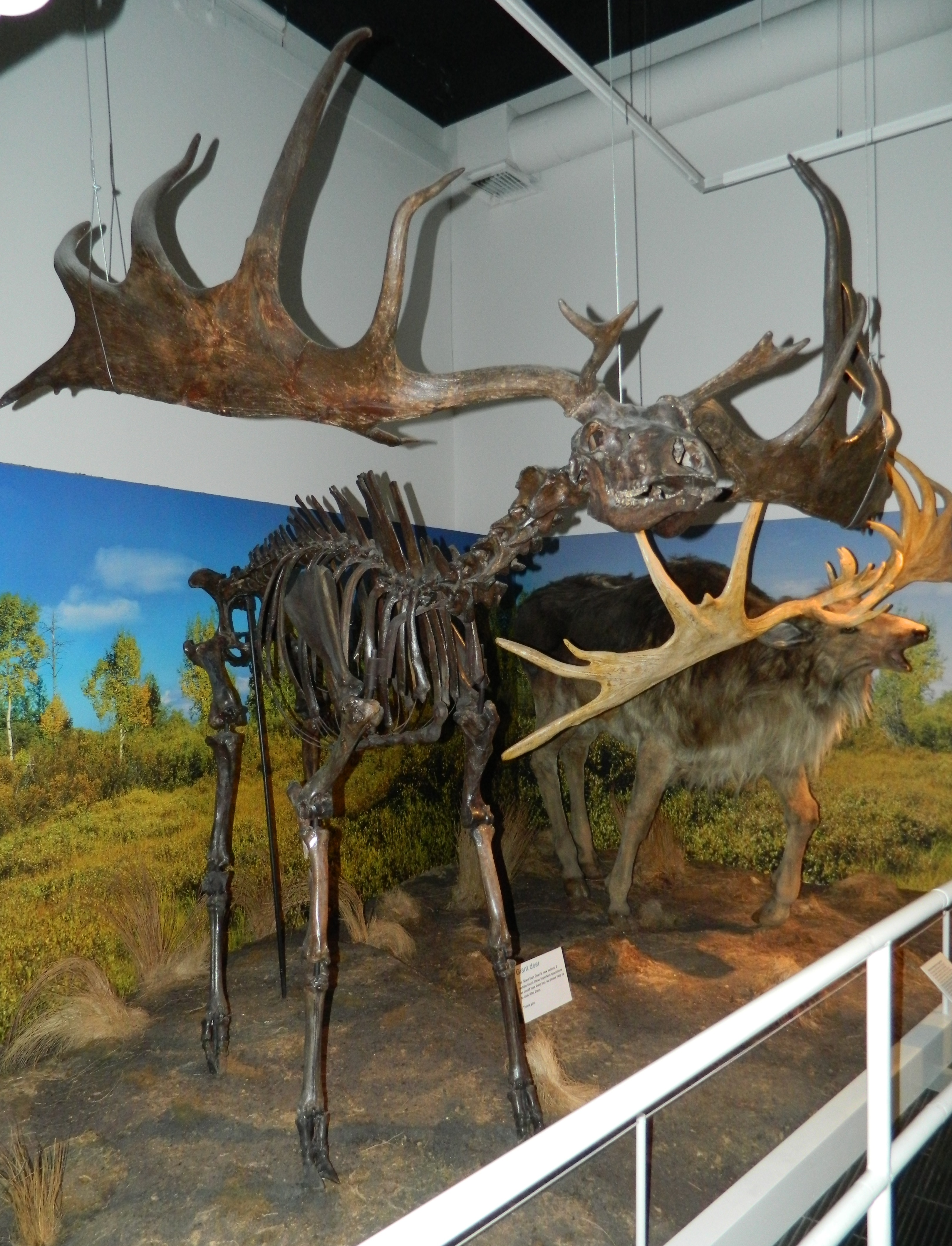 Giant deer (Megaloceros giganteus) skeleton, Ulster Museum